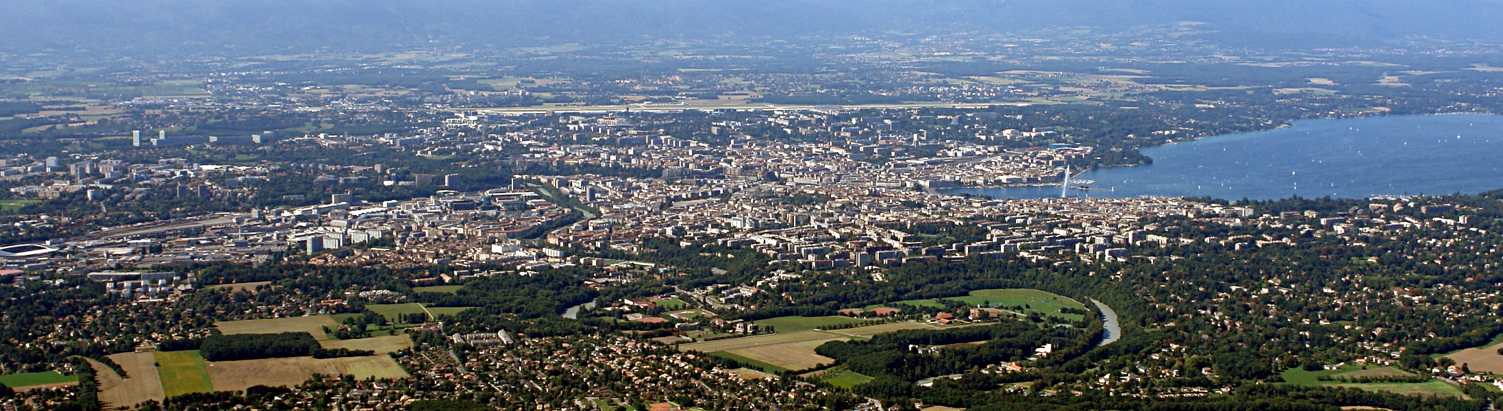 Geneva from Mount Salève.